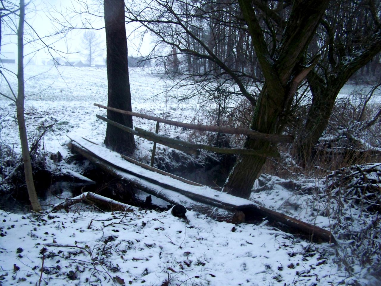 Foot-bridge on Cetynia river.